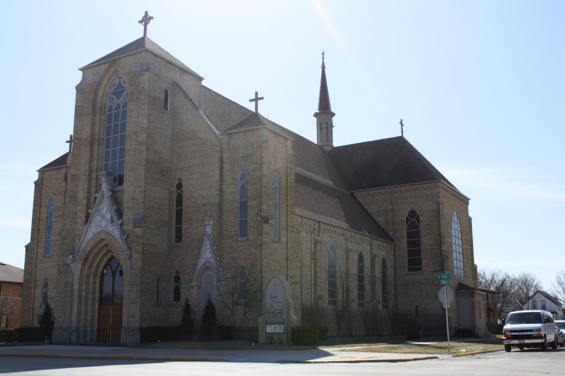 The St. Mary's Catholic Church in Kaukauna, Wisconsin, listed on the National Register of Historic Places.